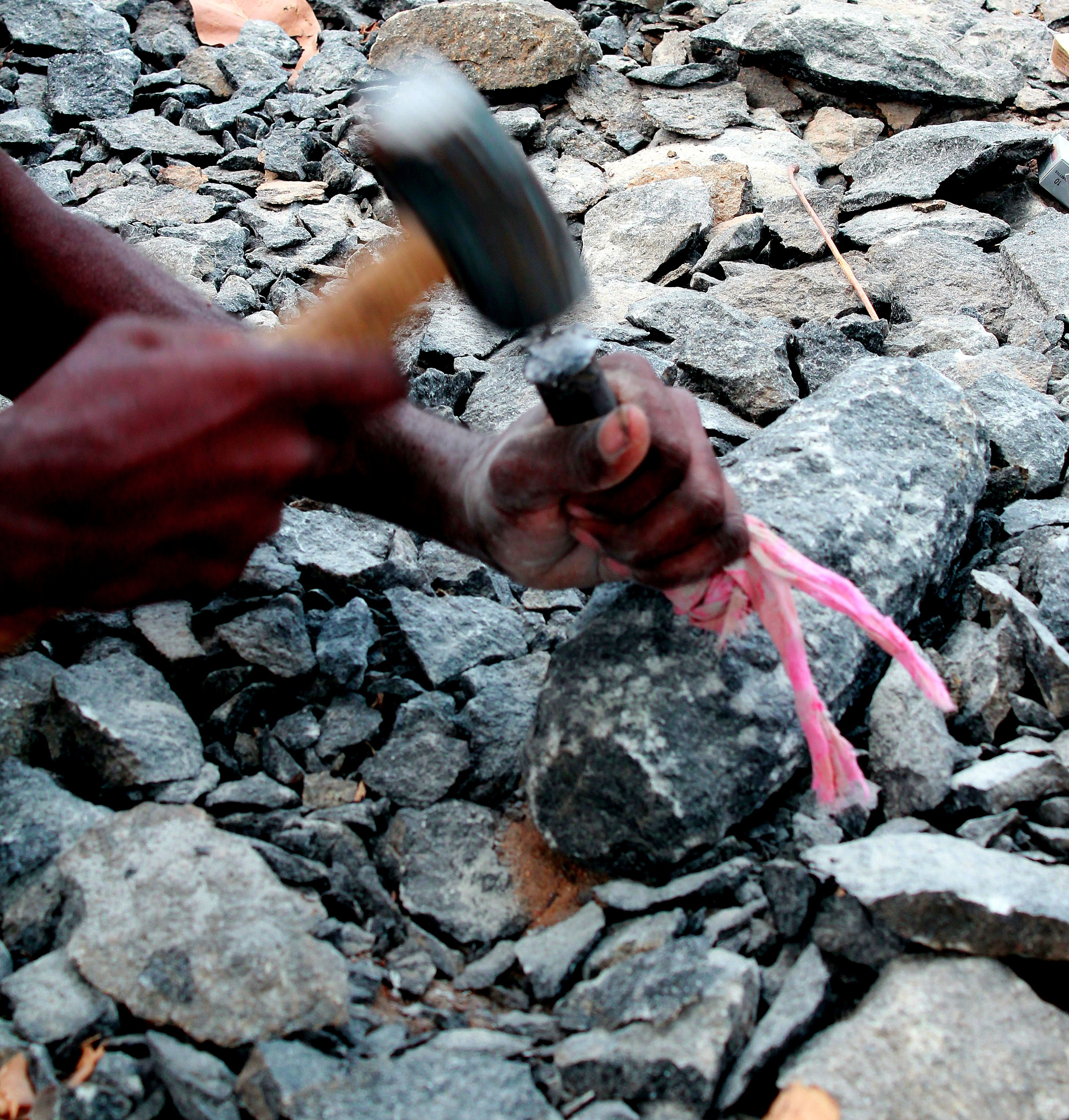 Oldest way of sculpturing